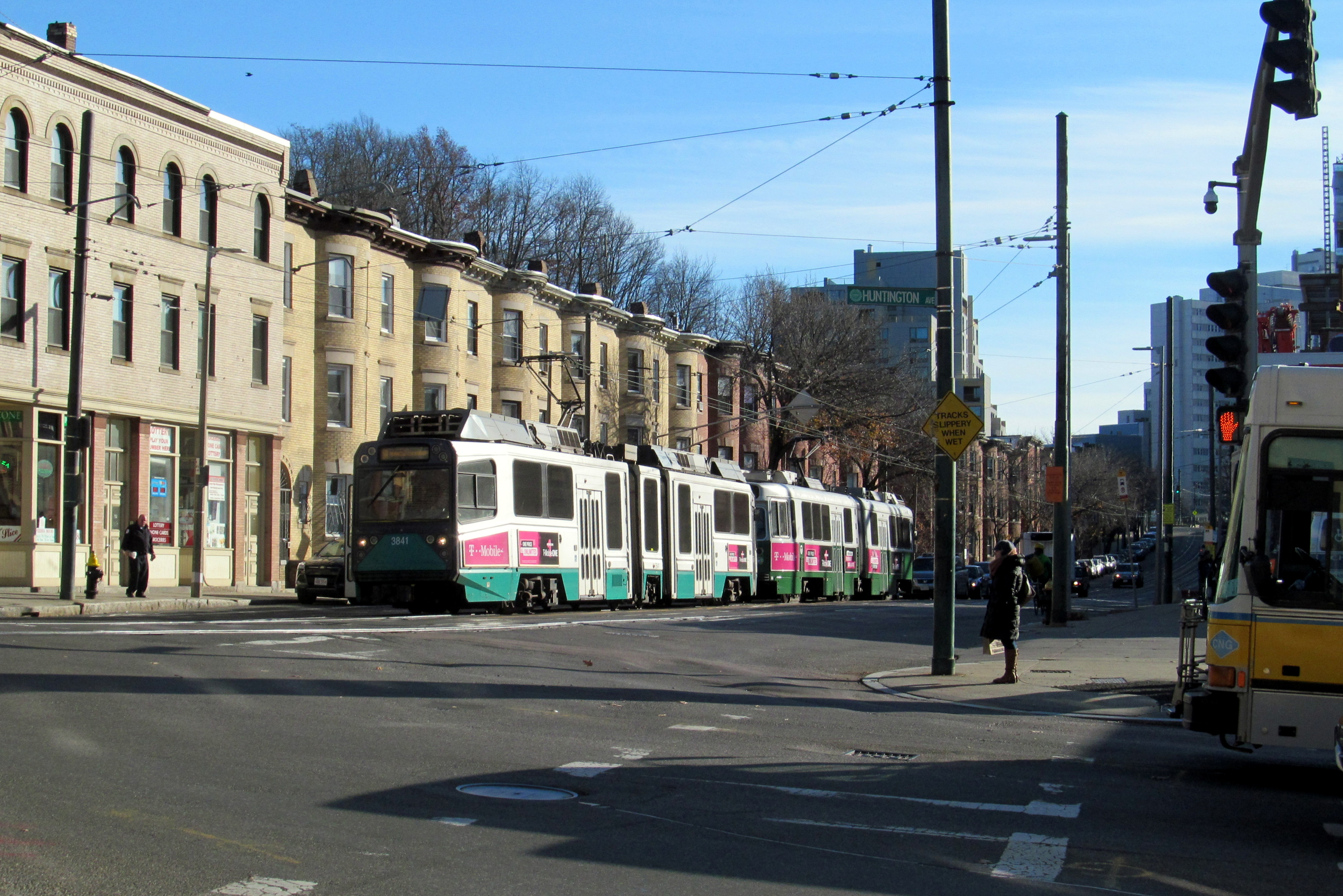 Inbound train and a Dudley-bound route 66 bus at Riverway station in December 2016